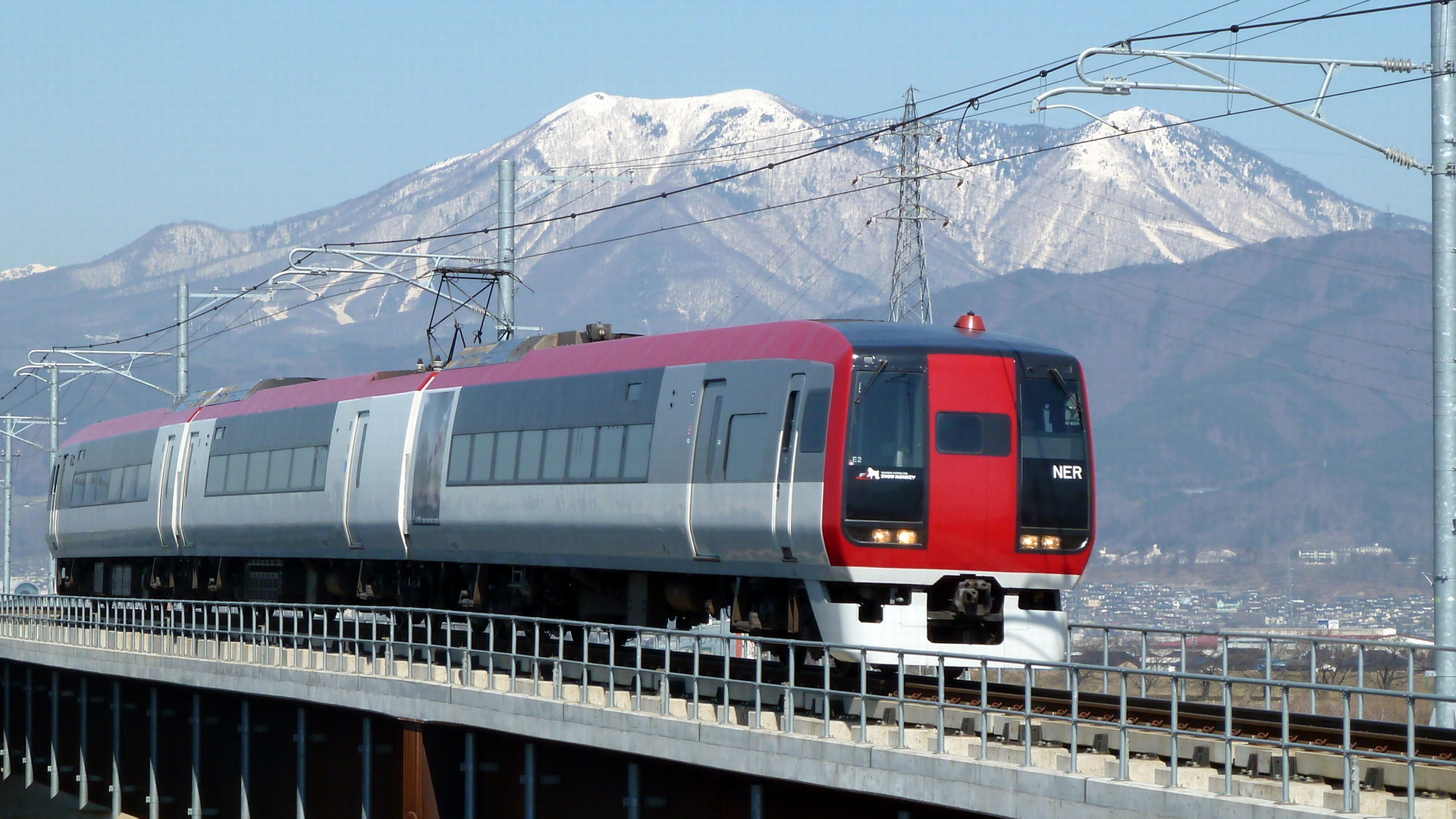 Nagano Electric Railway 2100 series EMU set E2 at Murayama Bridge